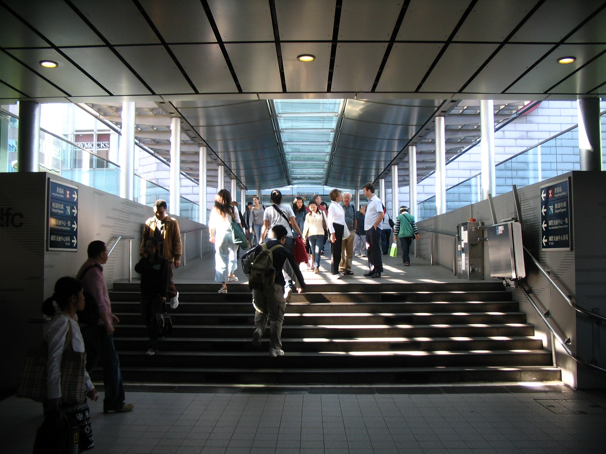 Photo of Central Elevated Walkway, toward Two International Finance Centre